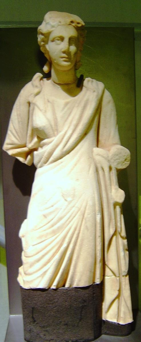 Statue of Hygieia 4th century Sagalassos